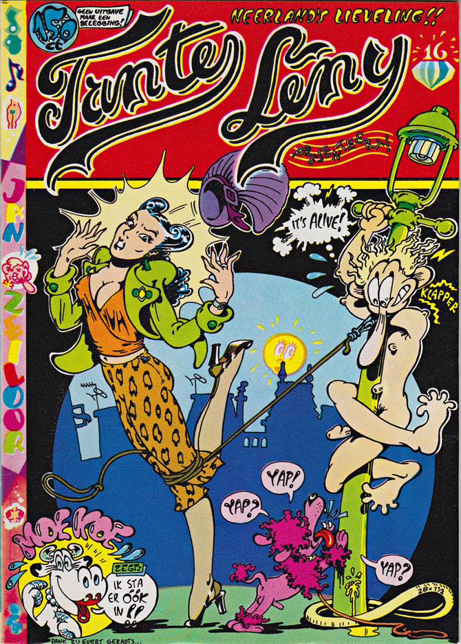 cover of comic magazine Tante Leny Presenteert! #16 by Evert Geradts